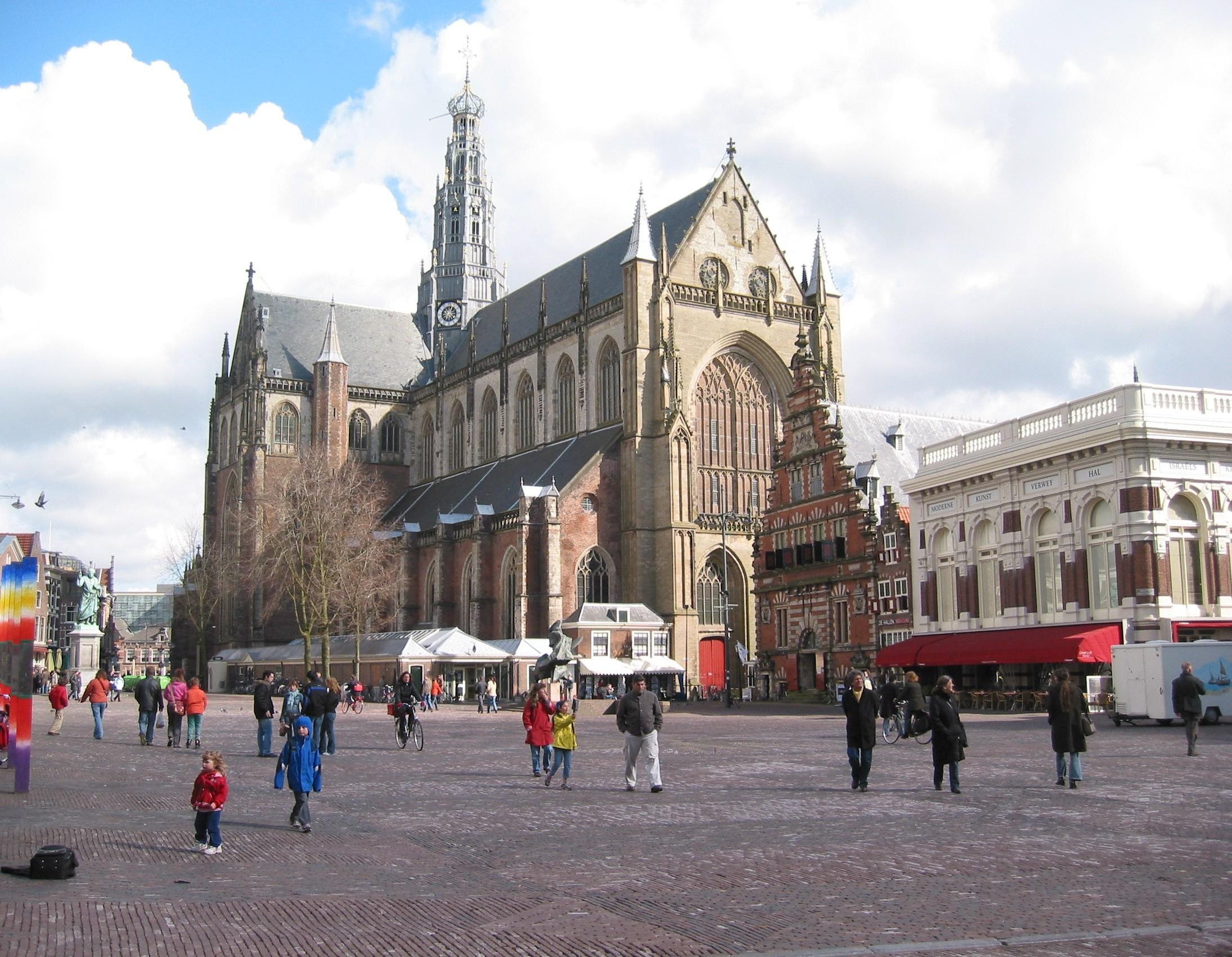 The Grote Markt in Haarlem with the Sint-Bavokerk. On the left the statue of Laurens Janszoon Coster can be seen, on the right is the Vleeshal.